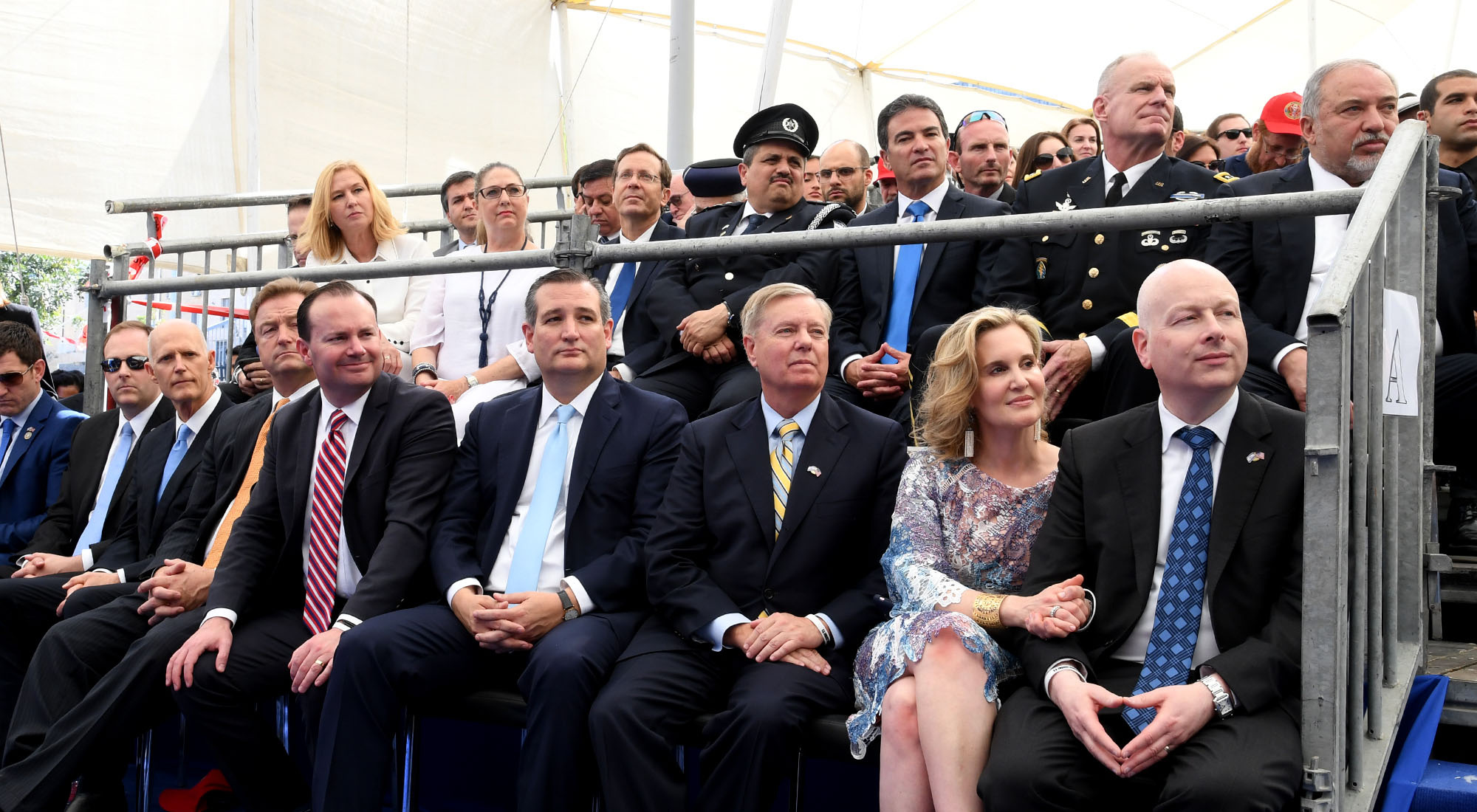 Embassy Dedication Ceremony